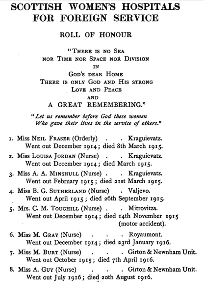 Scottish Women's Hospital people killed in WWI